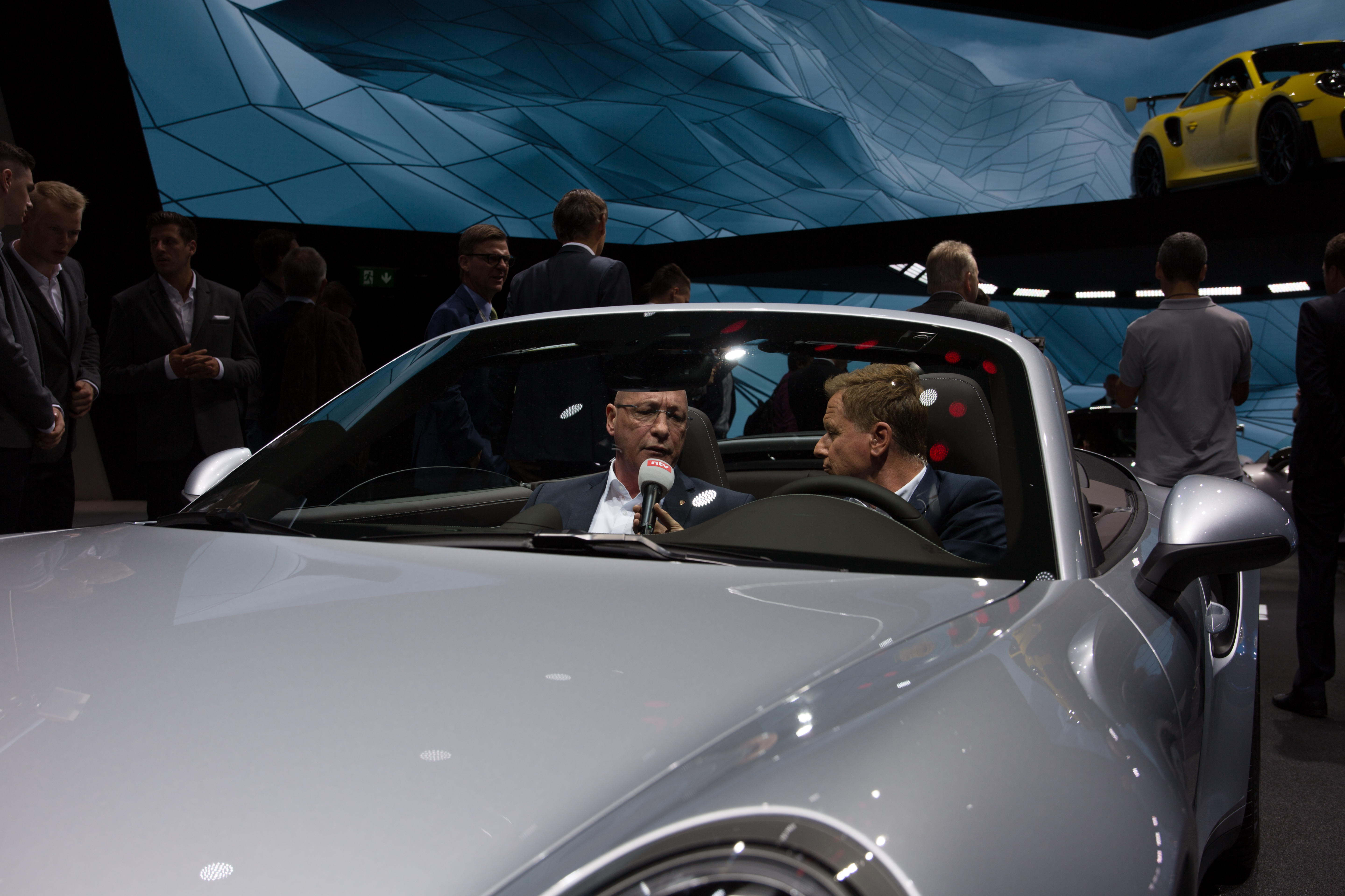 Uwe Hück interviewed at IAA 2017